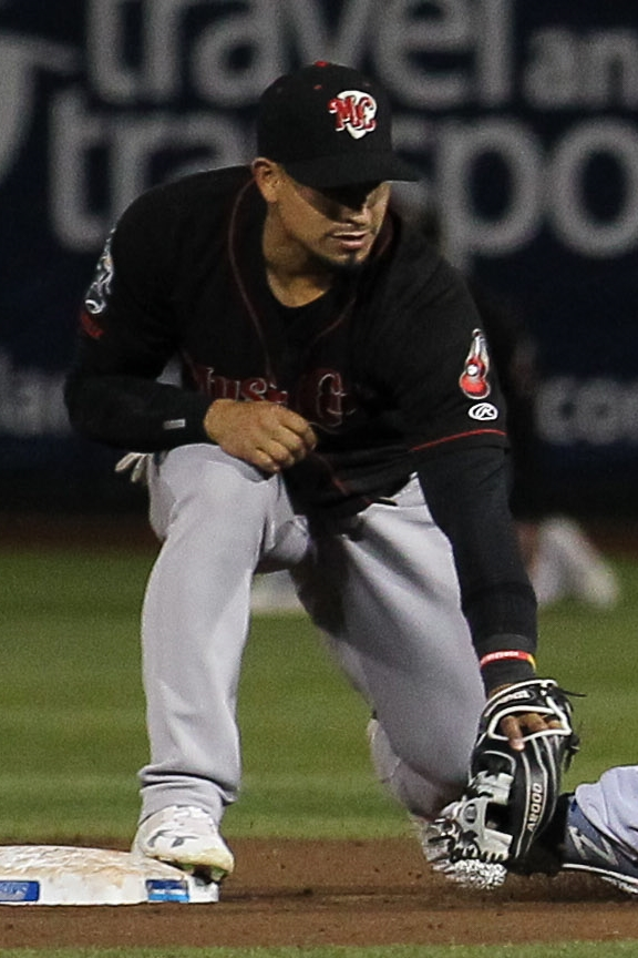 Nashville Sounds shortstop Franklin Barreto (2018) Minda Haas Kuhlmann | 2018 - USAGE INSTRUCTIONS: You are welcome to share or publish to your own site or social media account, but you MUST credit me, Minda Haas Kuhlmann. Twitter: @minda33. Instagram: minda.haas